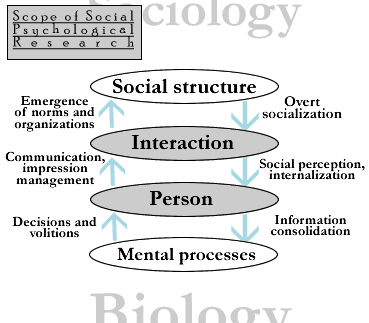 Created by lucidish for Wikipedia.